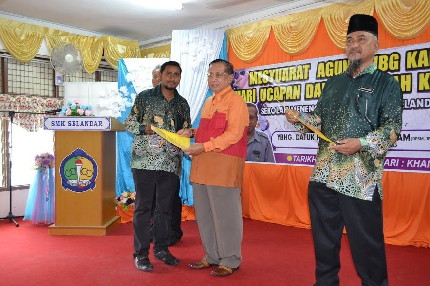 GAMBAR 16